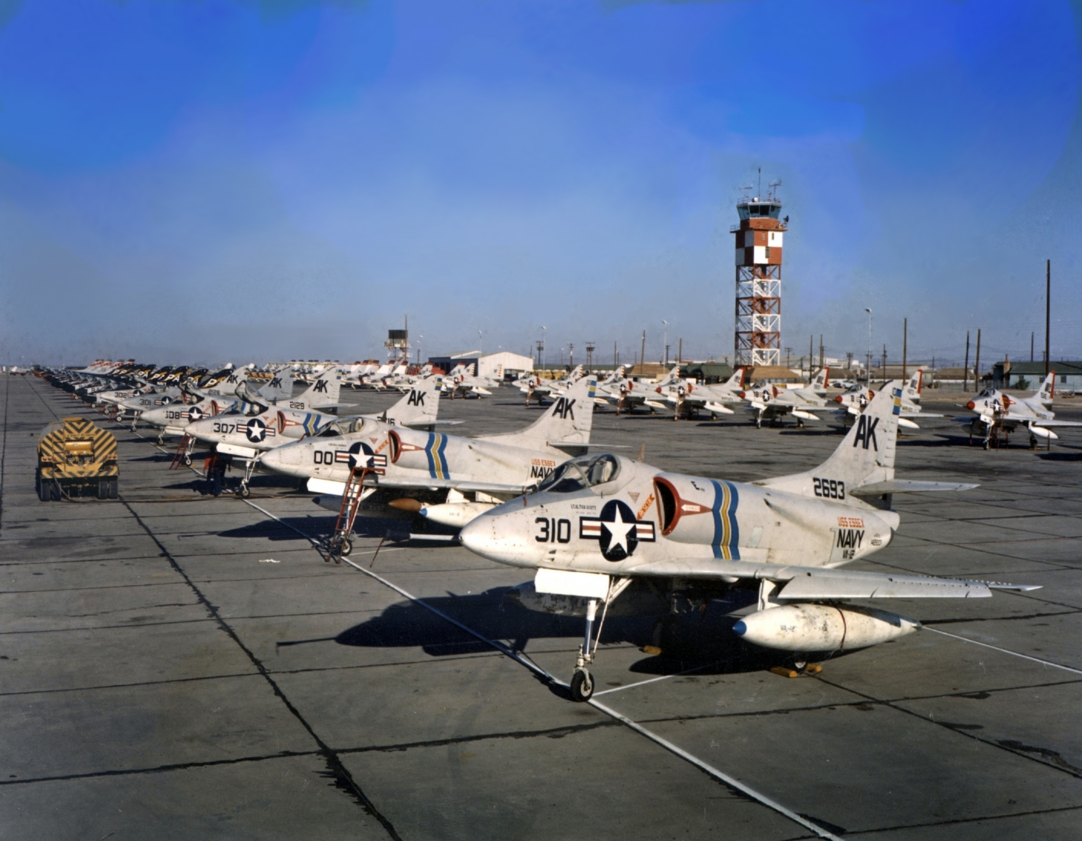 U.S. Navy Douglas A4D-2 Skyhawks assigned to Attack Squadron VA-12 Flying Ubangis off the carrier USS Essex (CVA-9) pictured along with other aircraft on the flight line at Marine Corps Auxillary Air Station Yuma, Arizona (USA), during participation in a weapons meet in 1959.